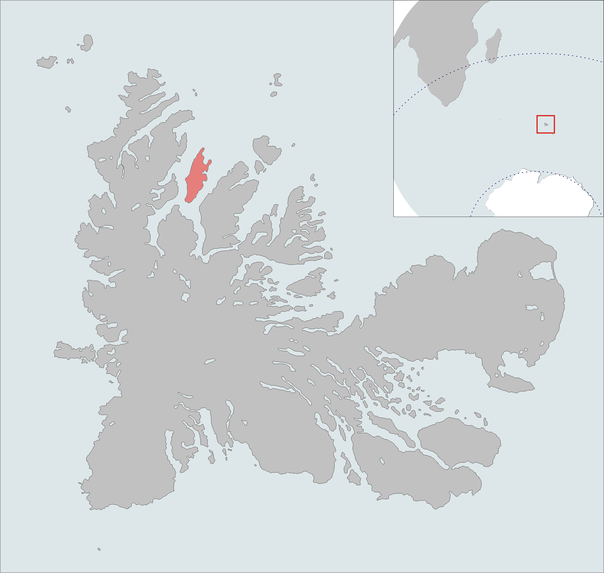 Position of Île Howe, in the Kerguelen Islands. Drawn by Varp and coloured by User:PoM.